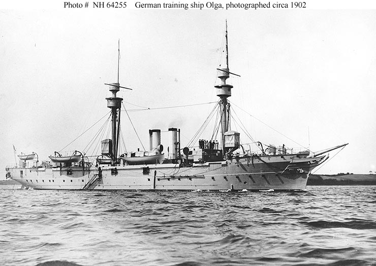 Trainingship Olga, photo taken 1902